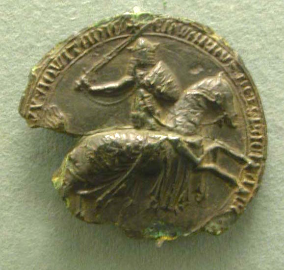 The Great Seal of Edward III (second version, in use 1327-1340), photographed in the Ashmolean Museum. Taken 2004/11 by William M. Connolley.